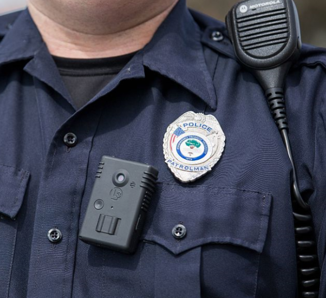 image